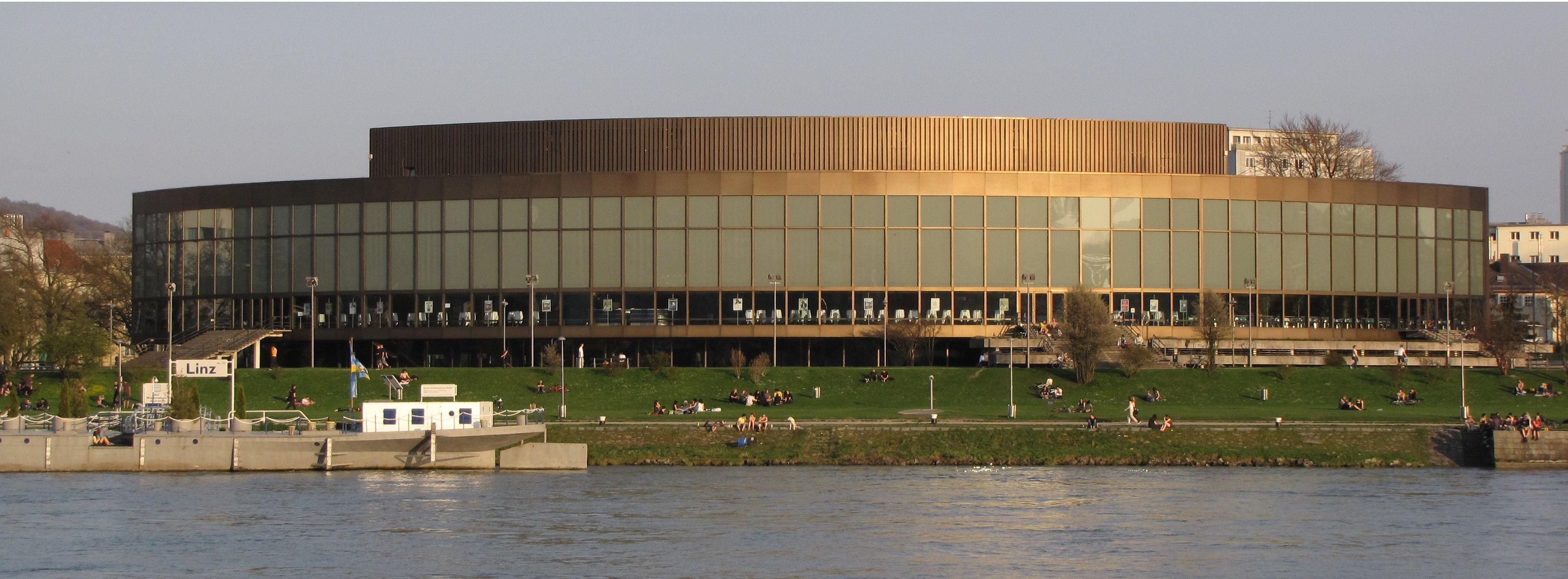 Brucknerhaus Linz in the evening sun. The Donaulände near the Brucknerhaus is a popular meeting point for the youth of Linz.